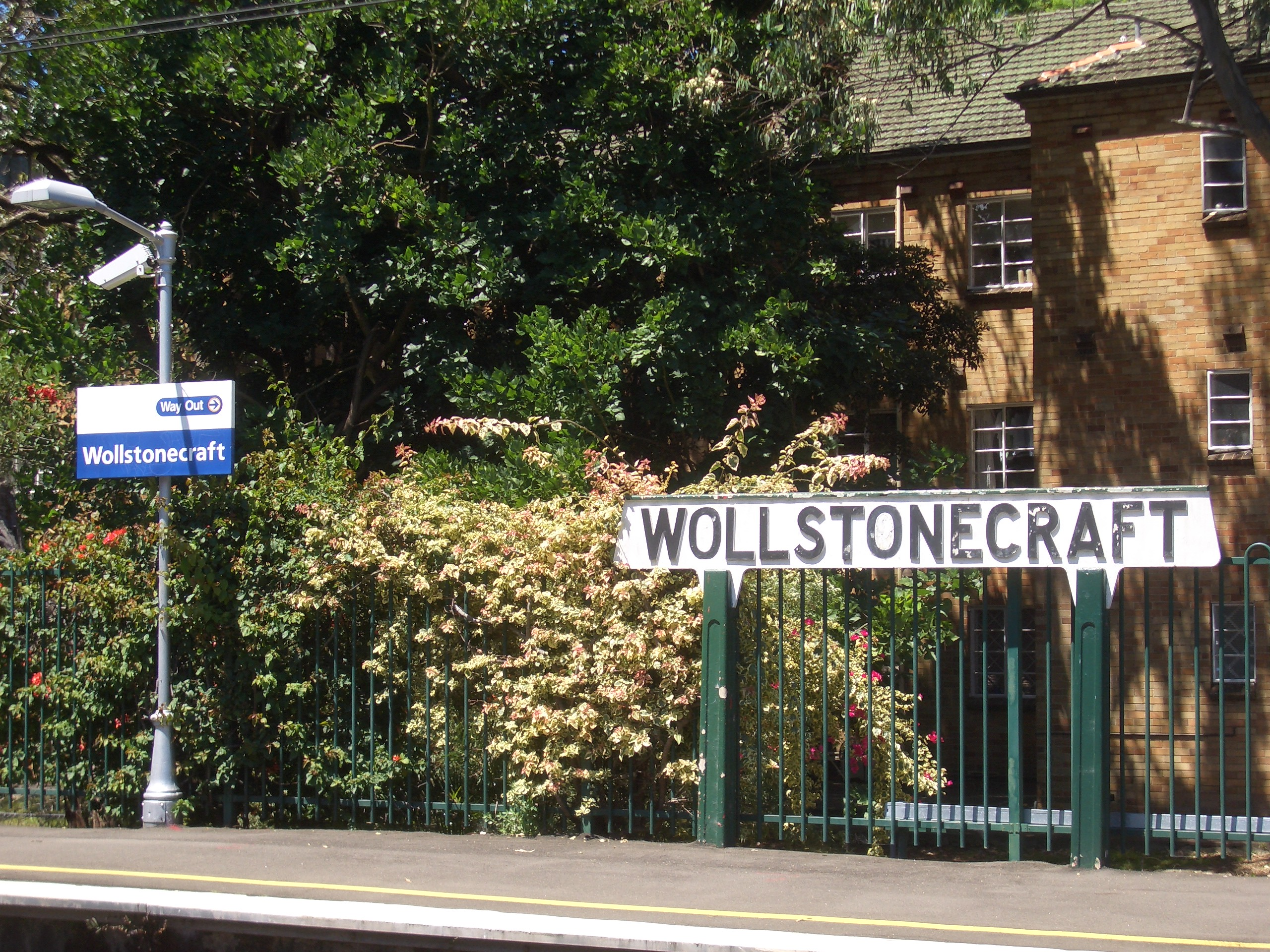 Wollstonecraft railway station entrance